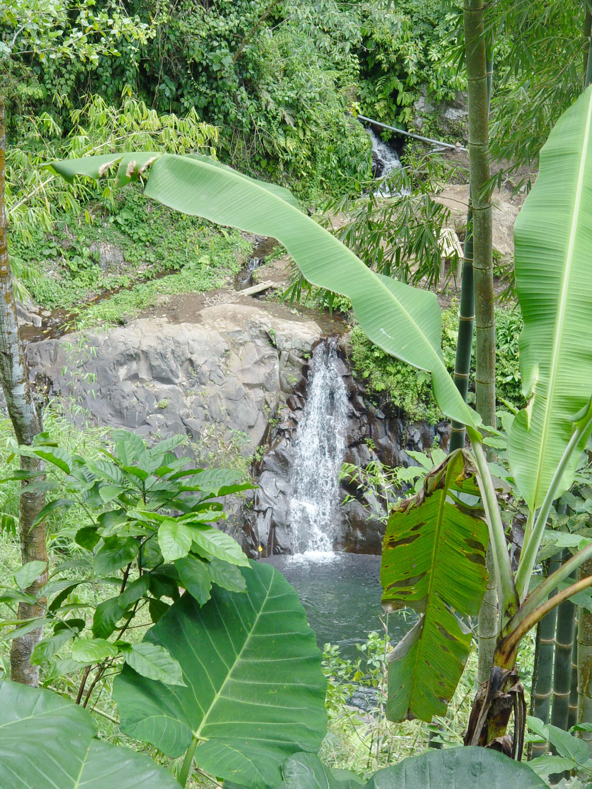 Gitgit waterfall, Sukasada, Buleleng, Bali, Indonesia.